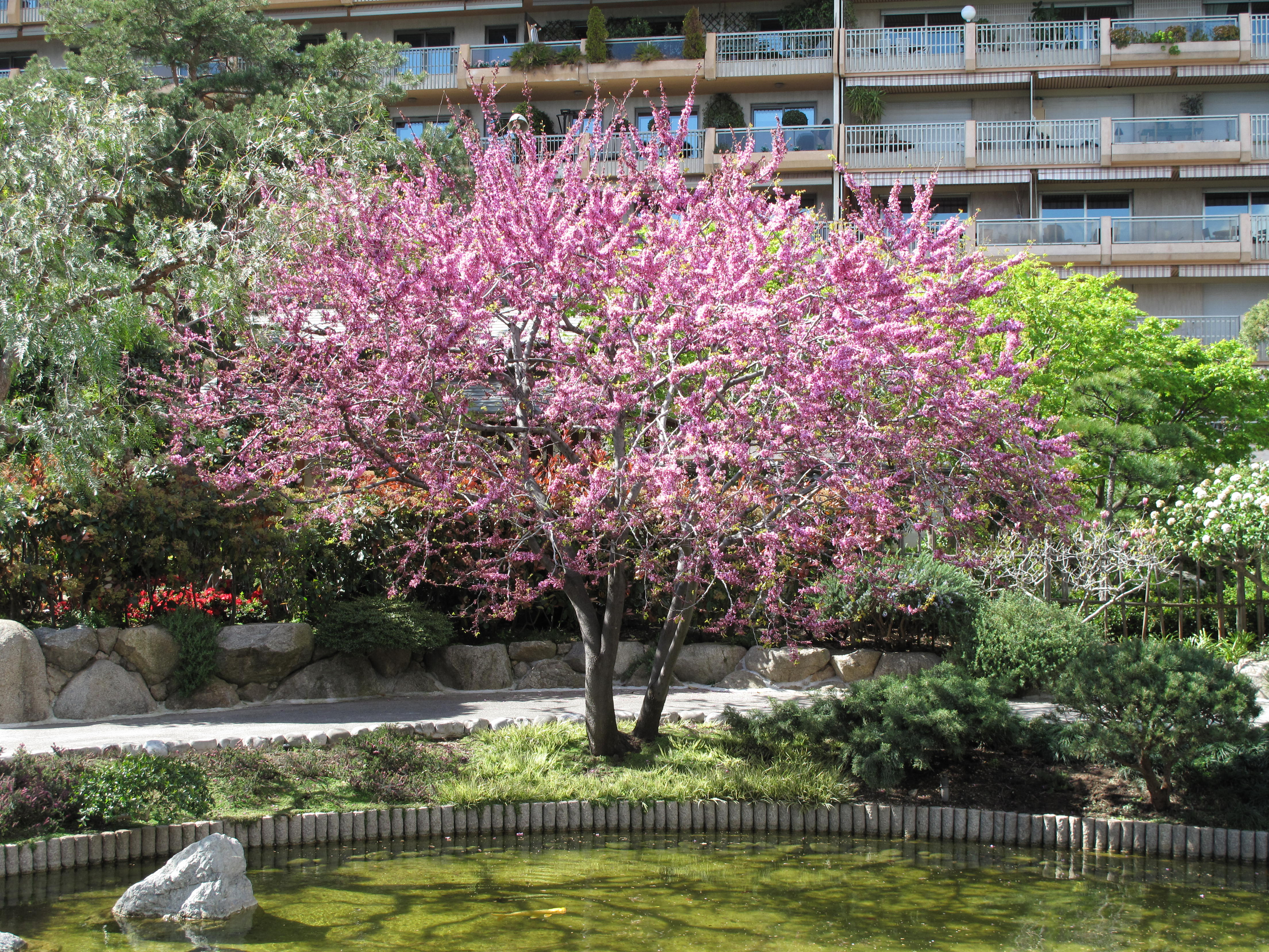 Judas tree (Cercis siliquastrum) in the japanese garden of Monaco